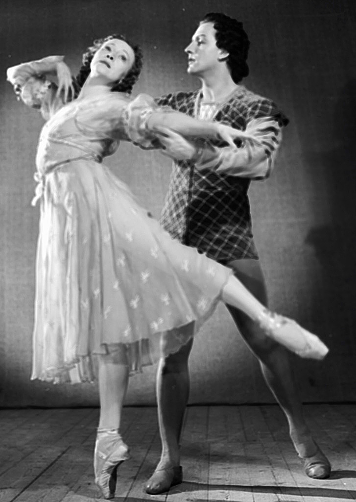 “Galina Ulanova and Yury Zhdanov in the ballet "Romeo And Juliet"”. Galina Ulanova, People's Artist of the U.S.S.R., as Juliet (right), and Yury Zhdanov as Romeo in Sergei Prokofiev's ballet "Romeo And Juliet".